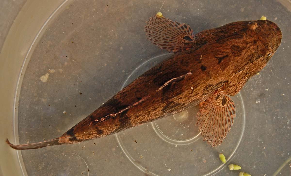 Oxyeleotris marmorata (standard length = 15 centimetres (5.9 in)), from Bogor, West Java, Indonesia